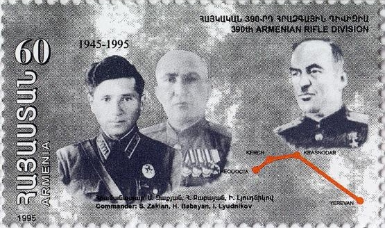 Commanders: S.Zakian, H.Babayan and I.Lyudnikov 390th rifle division. Stamp of Armenia